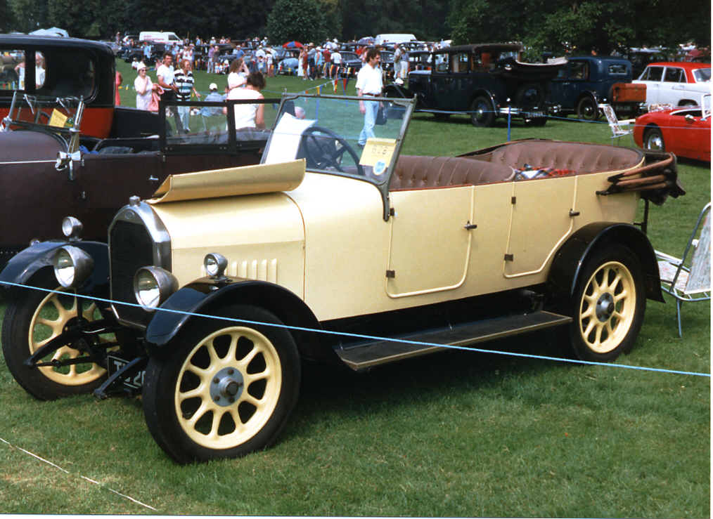 1926 Humber 9/20 tourer